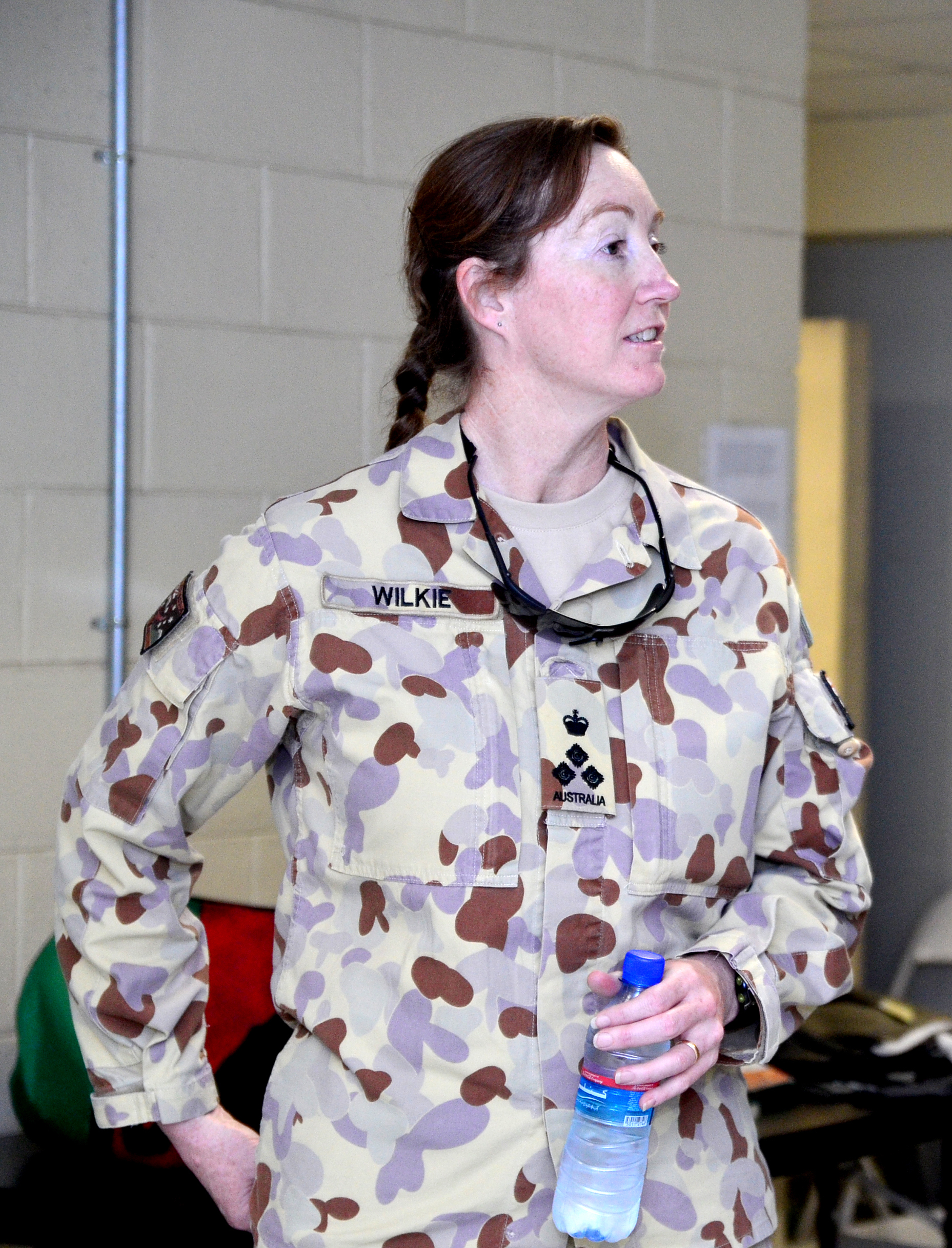 Cropped version of File:Simone Wilkie - original.jpg - see its entry for details.